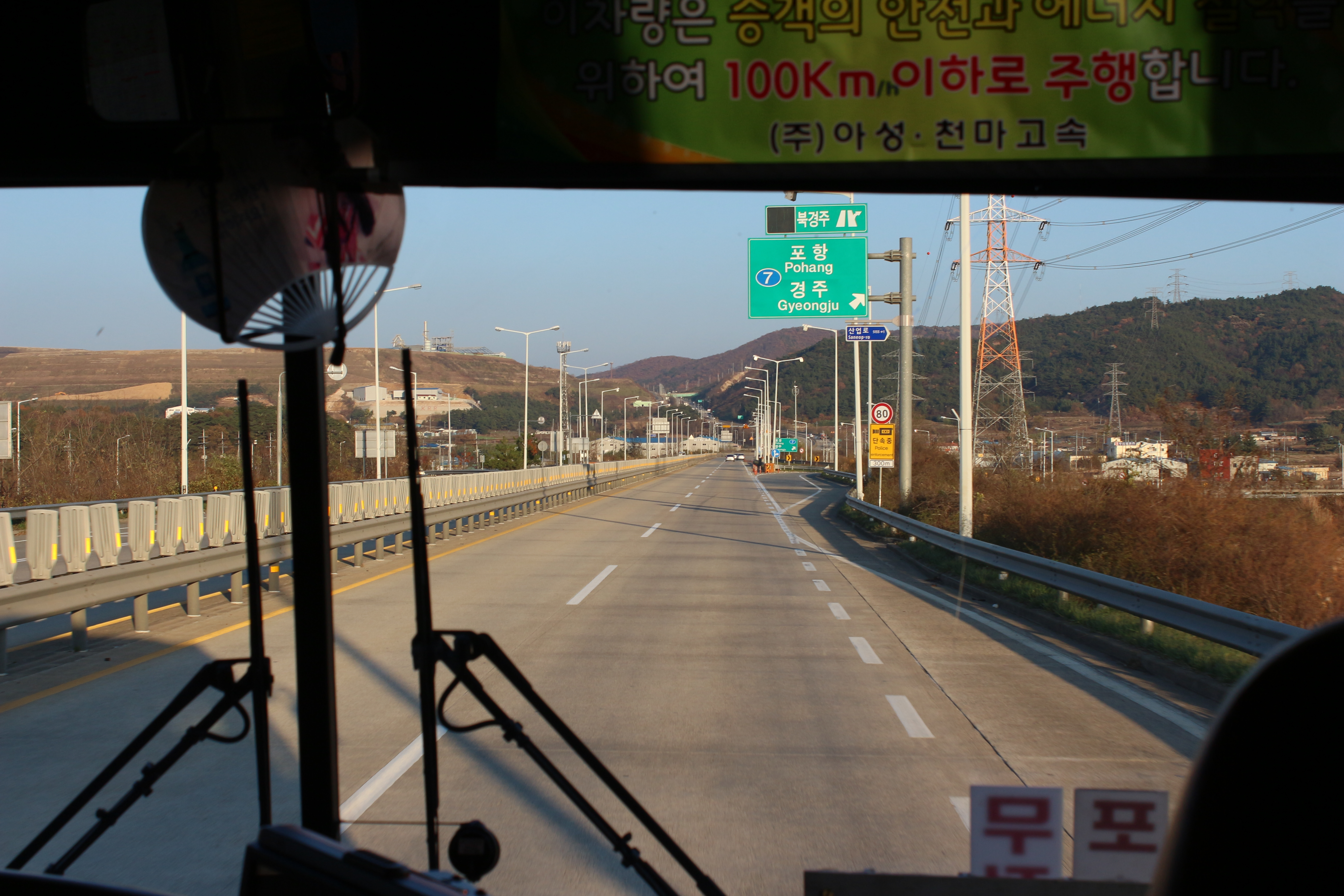 N. Gyeongju IC at Geonpo Saneop-ro Rd. (National Road 20th)